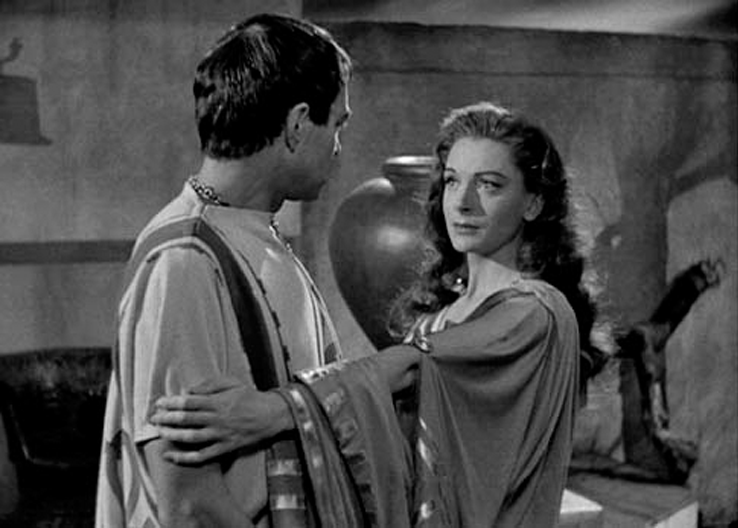 Cropped screenshot of Portia (Deborah Kerr) and Brutus (James Mason) from the film Julius Caesar